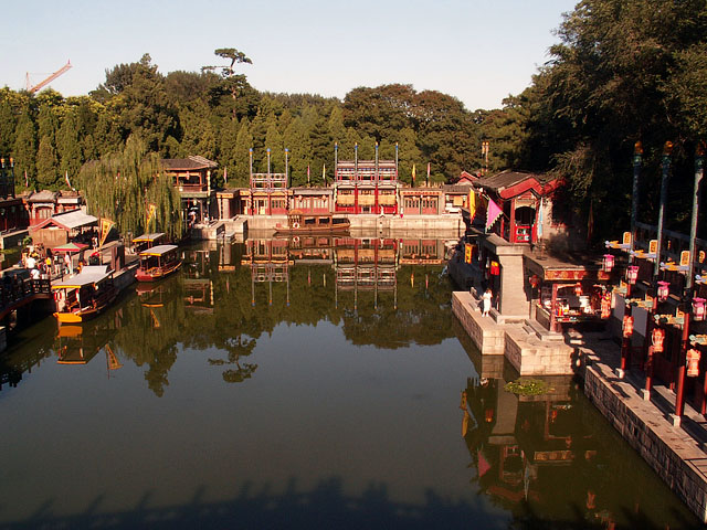 Summer Palace